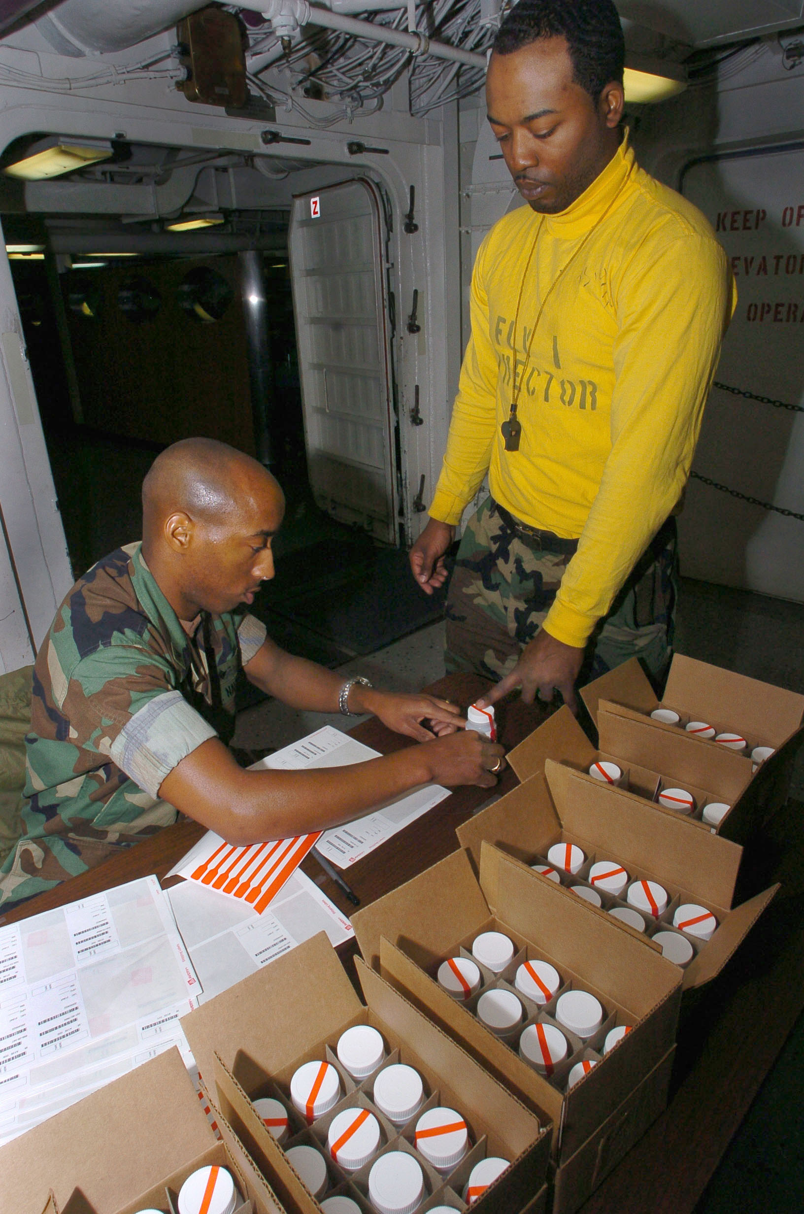 Pacific Ocean (June 22, 2004) - Master at Arms 2nd Class Johnny Henderson, from Greenwood, S.C., left, places a tamper seal on a urine sample from Aviation Boatswain's Mate Airman Antonio Williams, from Richmond, Calif., aboard the aircraft carrier USS John C. Stennis (CVN 74). Random urinalysis tests are given to Sailors to ensure compliance with the Department of Defense’s zero tolerance policy. Stennis and embarked Carrier Air Wing Fourteen (CVW-14) are at sea on a regularly scheduled deployment. U.S. Navy photo by Photographer's Mate Airman Ron Reeves. (RELEASED)